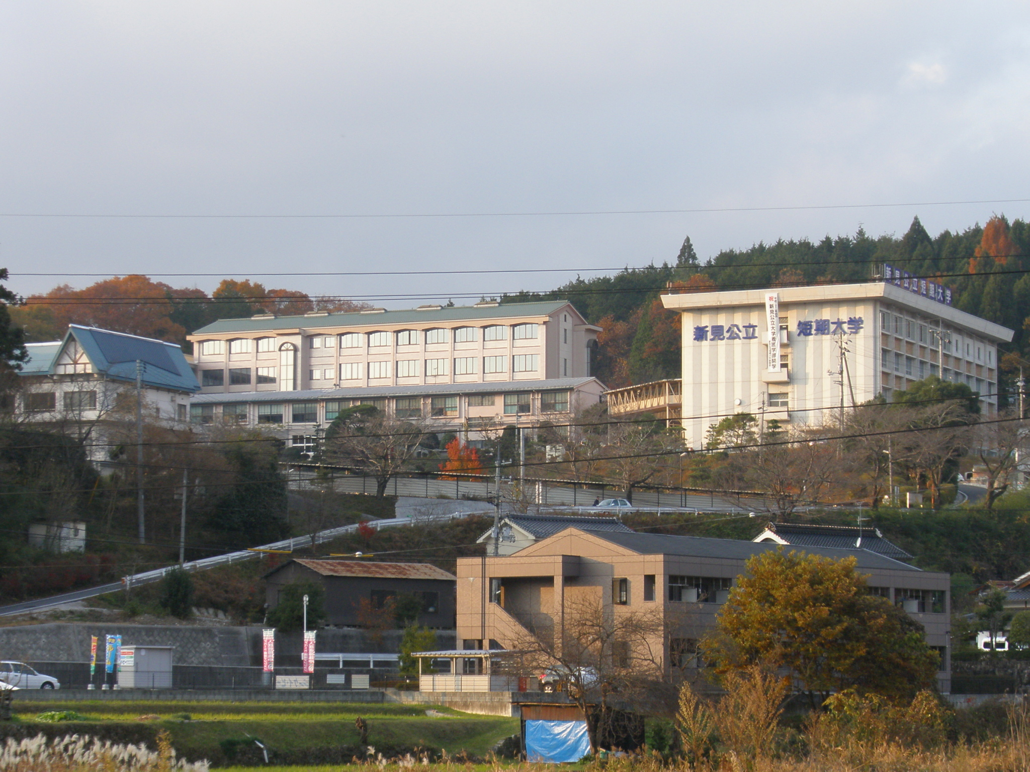 Niimi College, Niimi, Okayama.